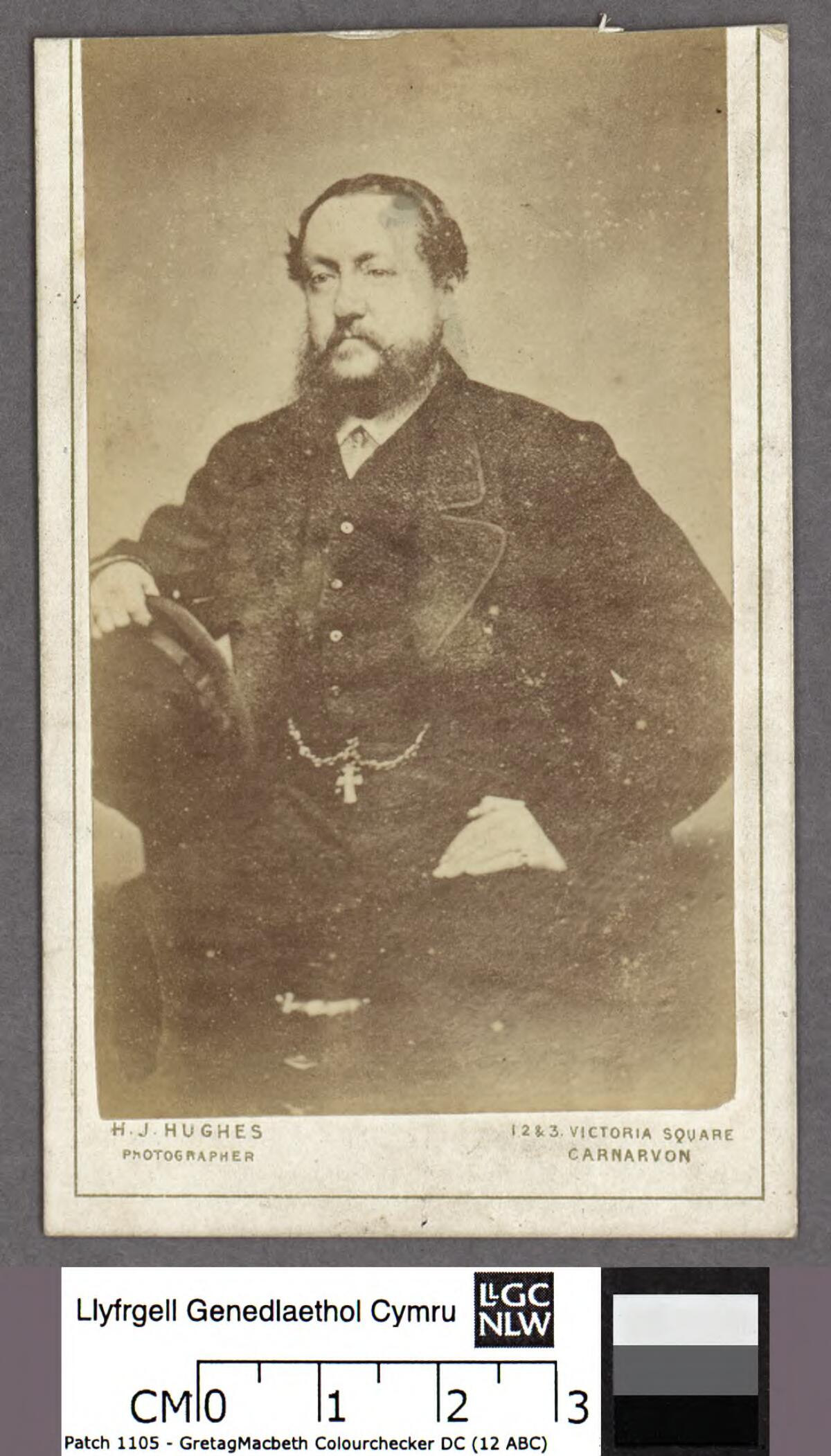 A portrait from the Welsh Portrait Collection at the National Library of Wales. Depicted person: Sir Love Jones-Parry, 1st Baronet – British politician